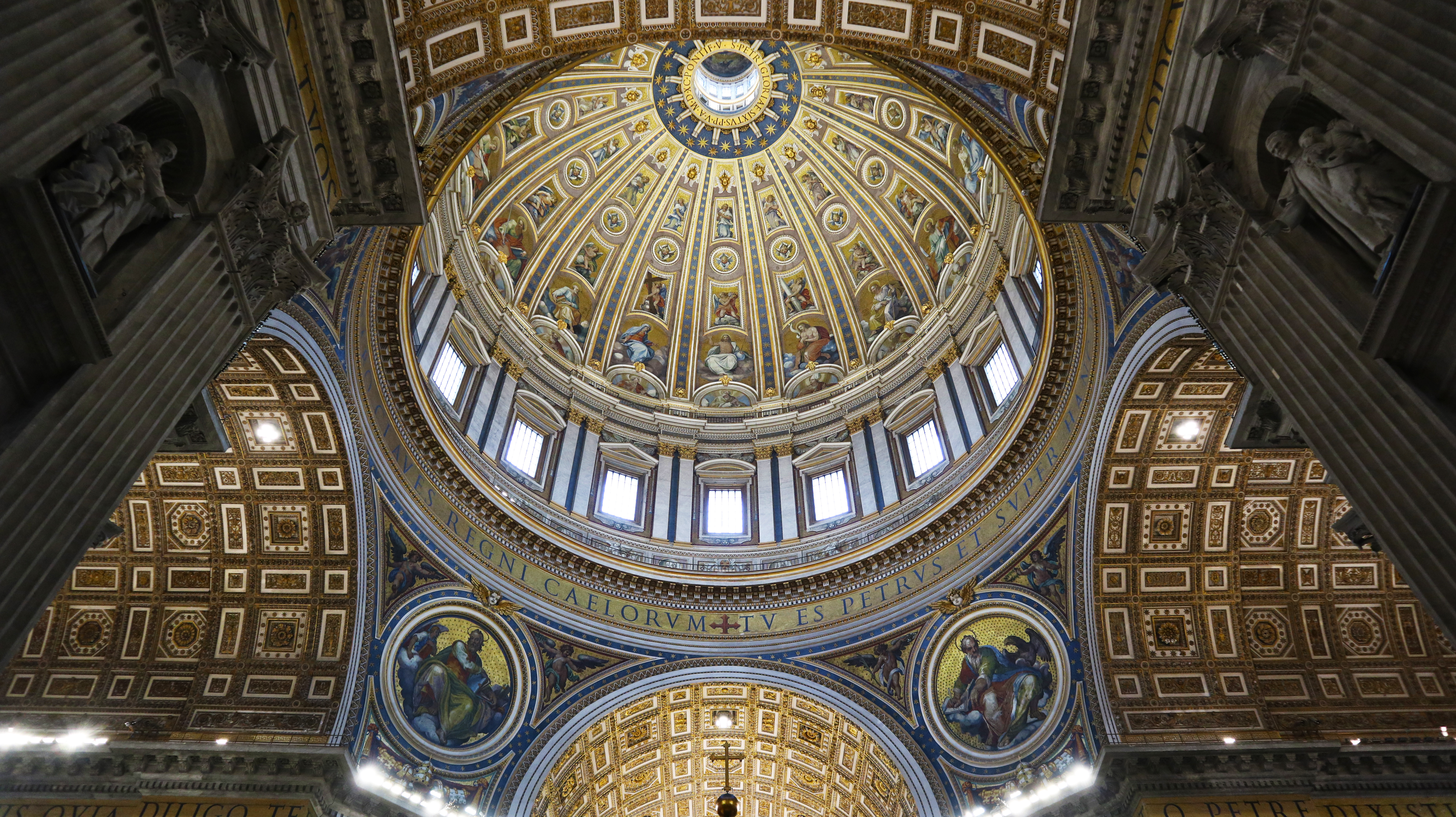 Dome of Saint Peter's Basilica (interior)